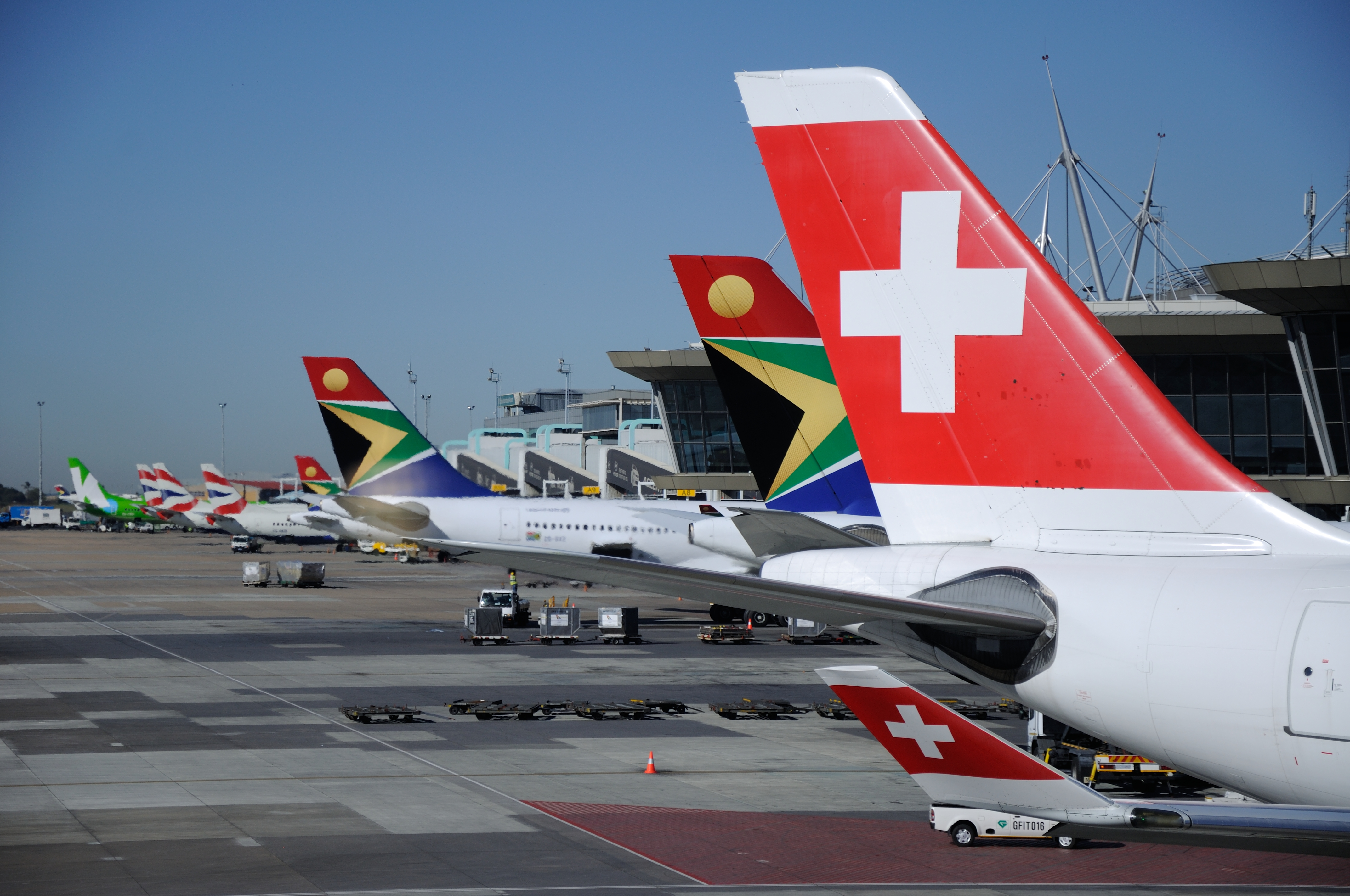 South Africa, spotting at O.R. Tambo International Airport South Africa, spotting at O.R. Tambo International Airport